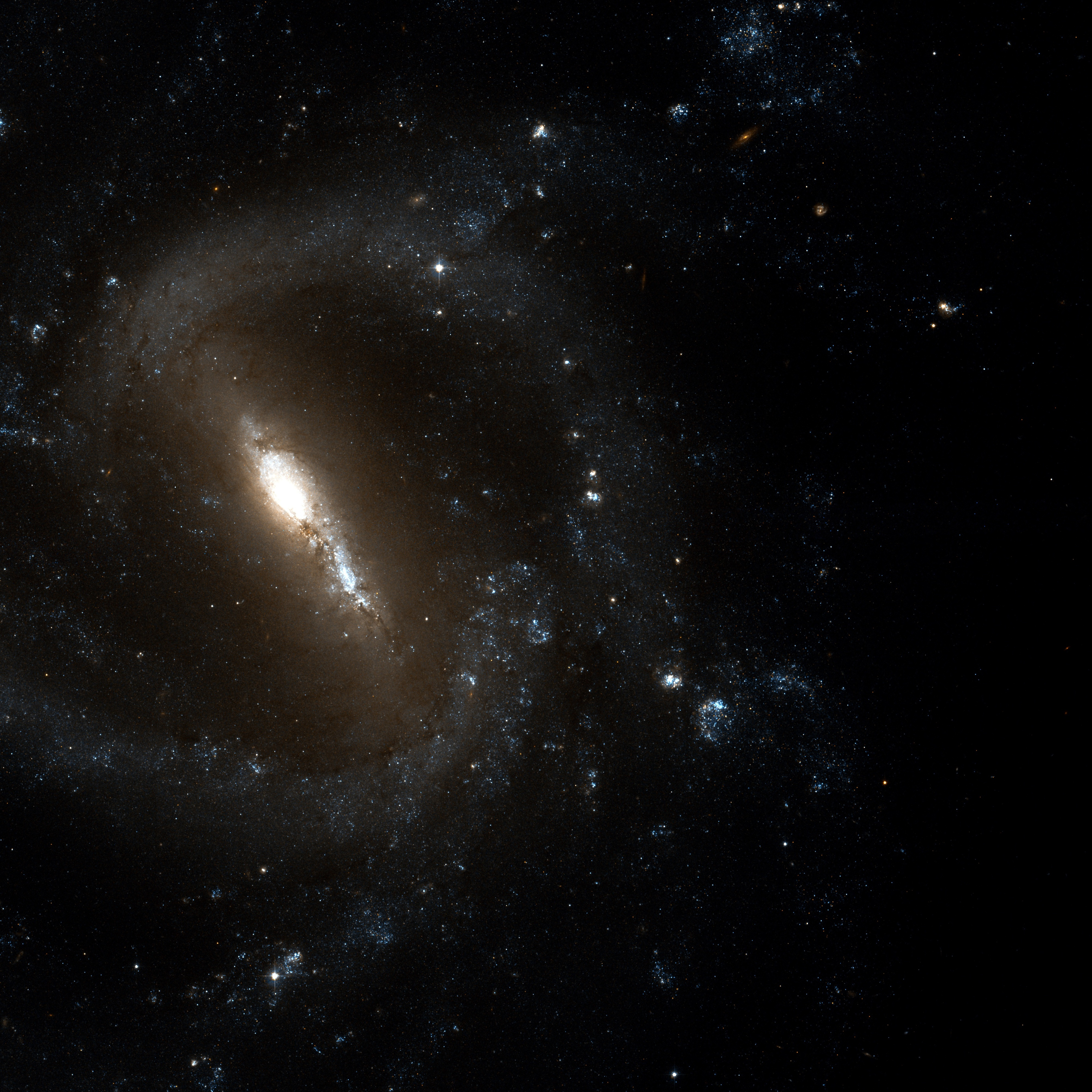 NGC 1073 by Hubble Space Telescope 3.18′ view